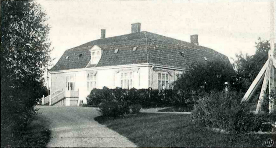 Hobøl in Eidsberg. The farm where Trygve Gulbranssen lived.